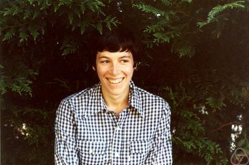 Nancy Stanton, Berkeley